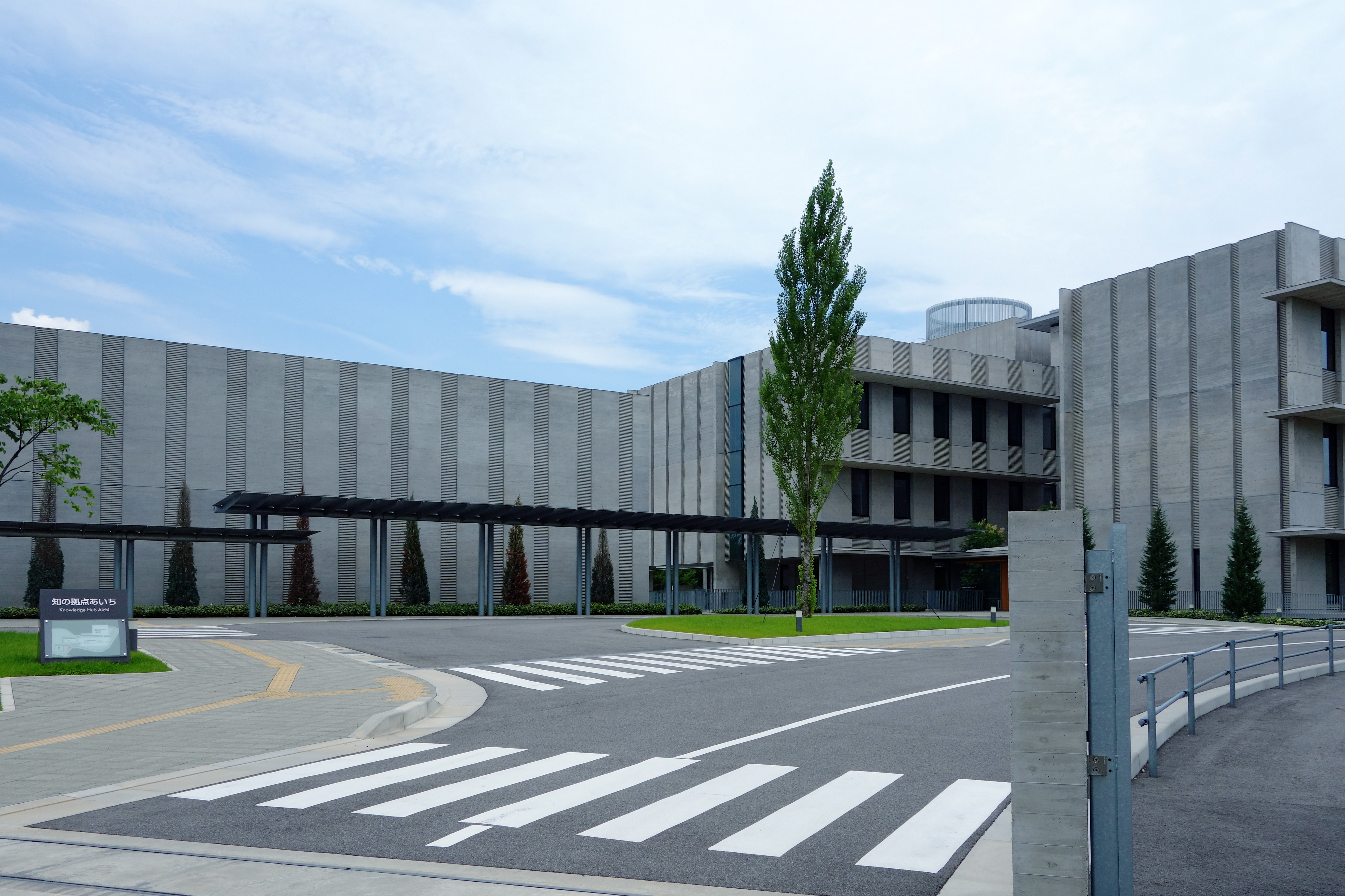 Knowledge Hub Aichi (知の拠点あいち), Seto, Aichi prefecture, Japan